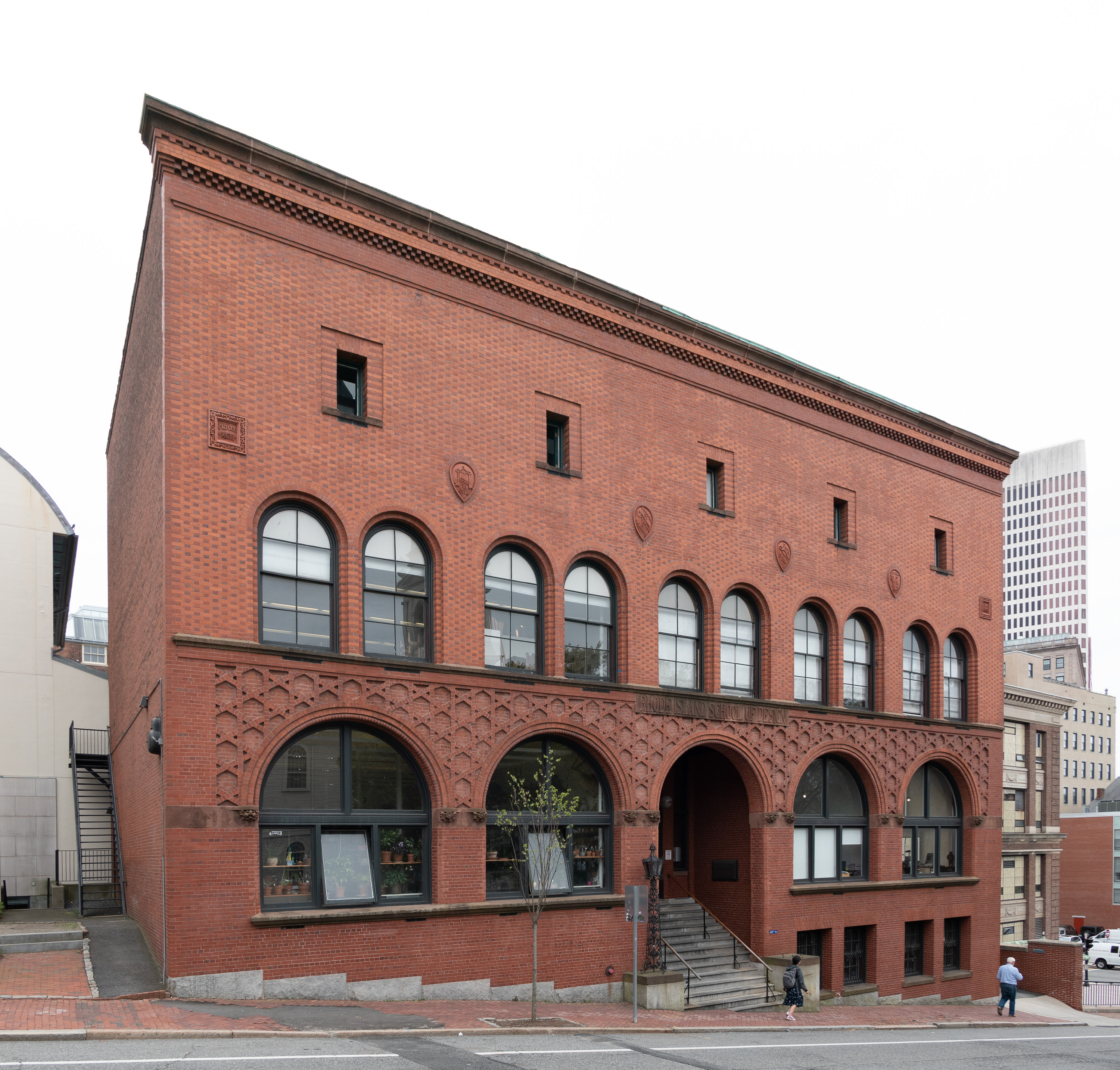 Waterman Building (1893) is a Venetian Renaissance landmark that was built to house art galleries, classrooms, and studios